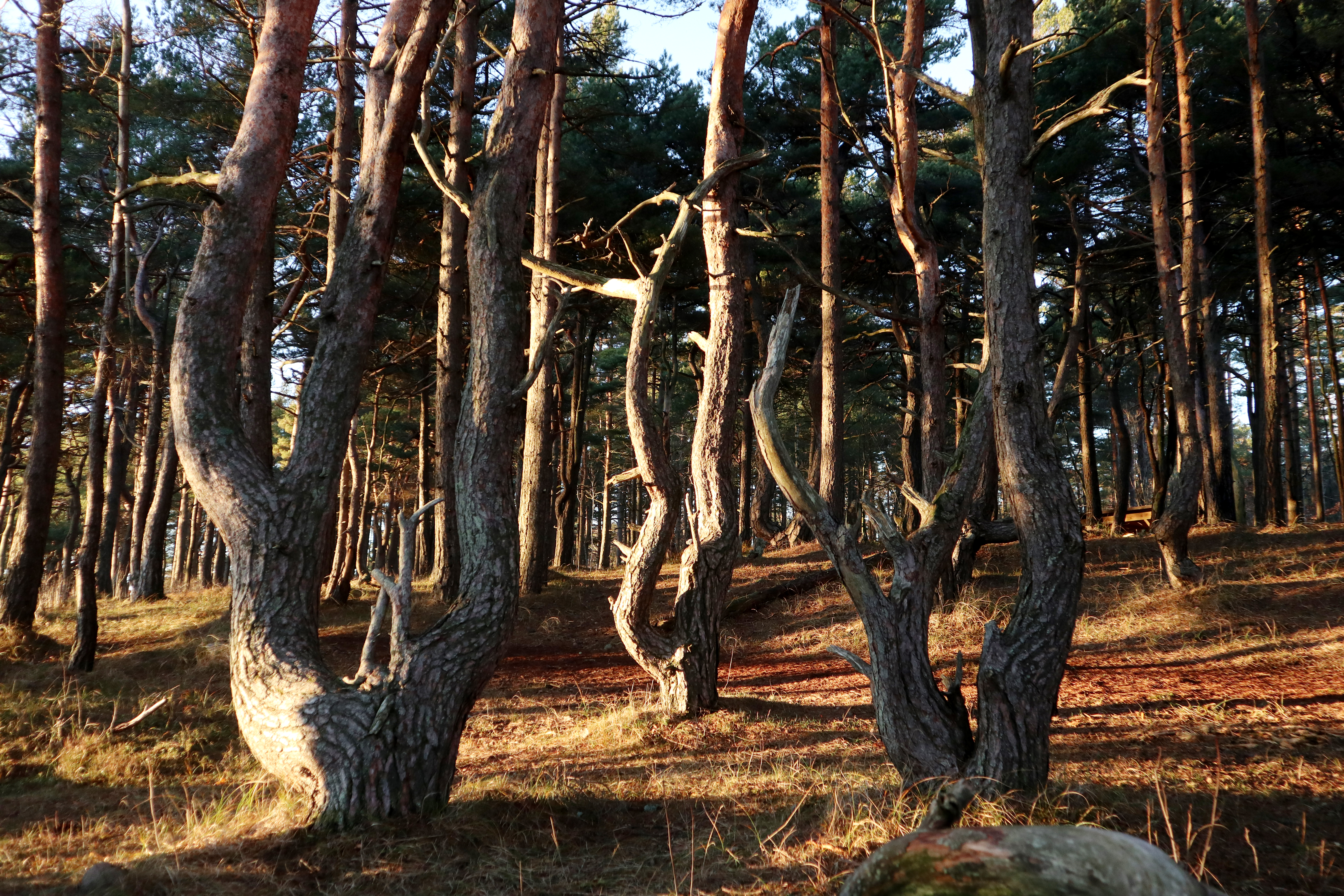 Wood at Hove at Tromøy in Arendal